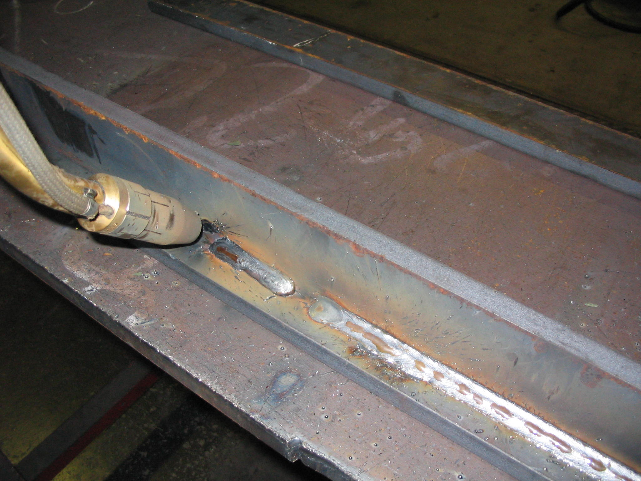 A photo of welded seam by arc welding.